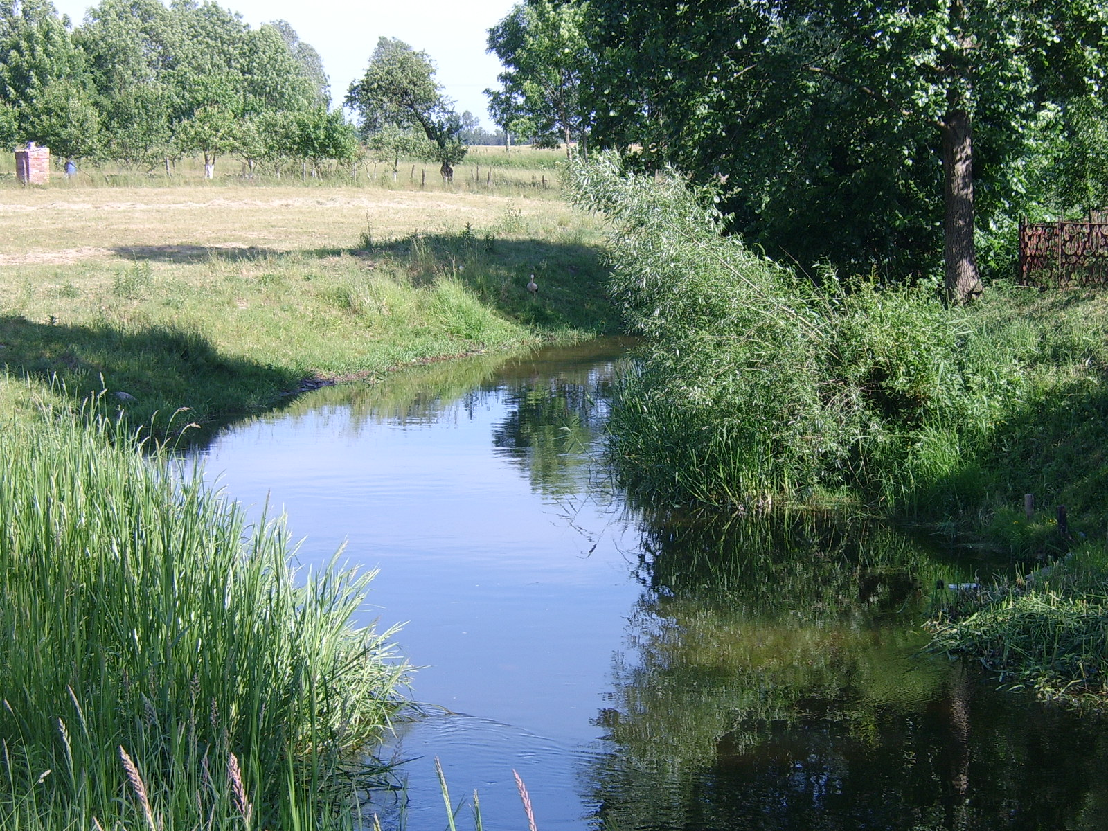 rzeka Orzysza w Mikoszach-widok ze wshodniej strony mostku